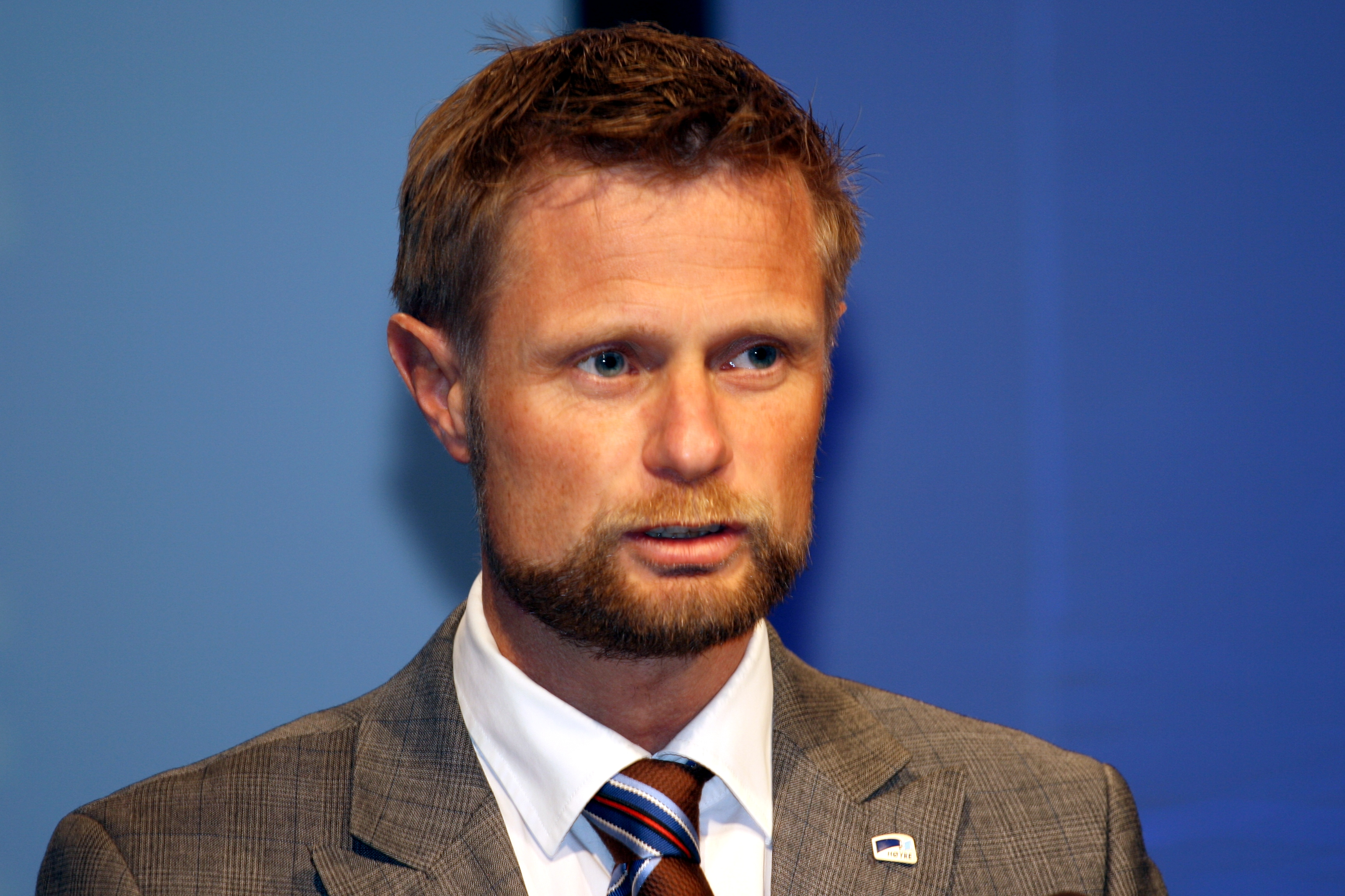 Bent Høie, Norwegian politician (Conservative Party).